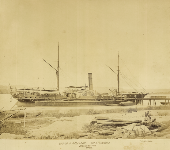 The Thereza Christina Maria collection is composed of 21,742 photos assembled by Emperor Pedro II (1825-91) throughout his life and donated by him to the National Library of Brazil. The collection covers a wide variety of subjects. It documents the achievements of Brazil and Brazilians in the 19th century and also includes many photographs of Europe, Africa, and North America. In 1868, photographer Augusto Riedel accompanied Luis Augusto, Duke of Saxe, son-in-law of Emperor Pedro II, on an expedition into the interior of Brazil. The expedition probably traveled by steamer along the São Francisco River, which forms the border between the states of Bahia and Alagoas. Transport on the river was generally provided by gaiolas, the low-lying paddle-wheel steamers shown in this photograph. The use of gaiolas was discontinued after the river was dammed to form the Lake Sobradinho in the 1960s. Memory of the World; Rivers; São Francisco River; Ships; Steamboats